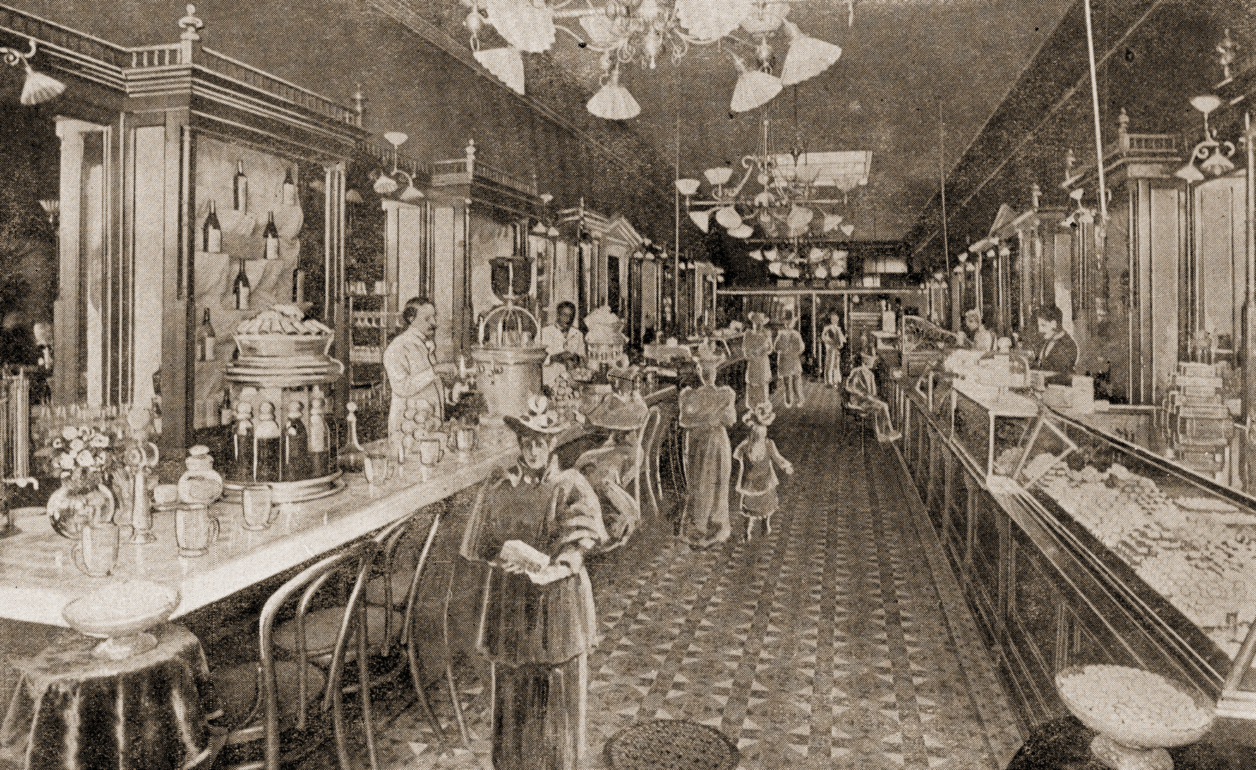 Whitman's Retail Store, 1316 Chestnut Street, Philadelphia, PA 1894